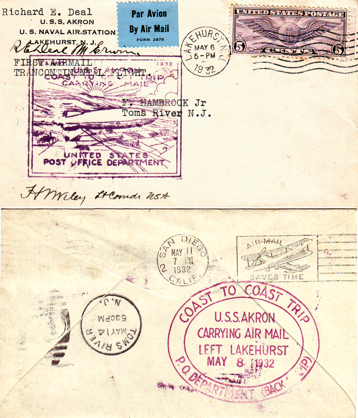 ZRS-4 USS Akron cover carried on the May, 1932, "Coast to Coast" Air Mail flight and later autographed by the only three survivors of the April, 1933, crash US Navy airship: LCDR Herbert V. Wiley, AM2 Moody Erwin, and BM2 Richard E. Deal.